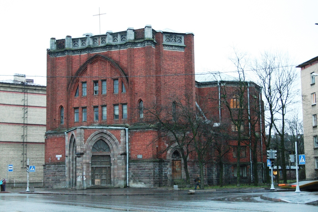 Saint Petersburg (Russia), Sacre Coeur Church